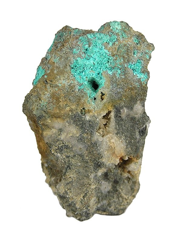 Langite Locality: Fowey Consols mine (Wheals Treasure; Fortune; Chance; Polharmon; Lanescot), Tywardreath, Par Area, St Austell District, Cornwall, England, UK (Locality at ) A specimen of the rare hydrated copper sulfate langite, first described in 1864 based on specimens from this Cornwall locality. Uncommon on the market from ANYWHERE! 4.5 x 2.8 x 1.2 cm